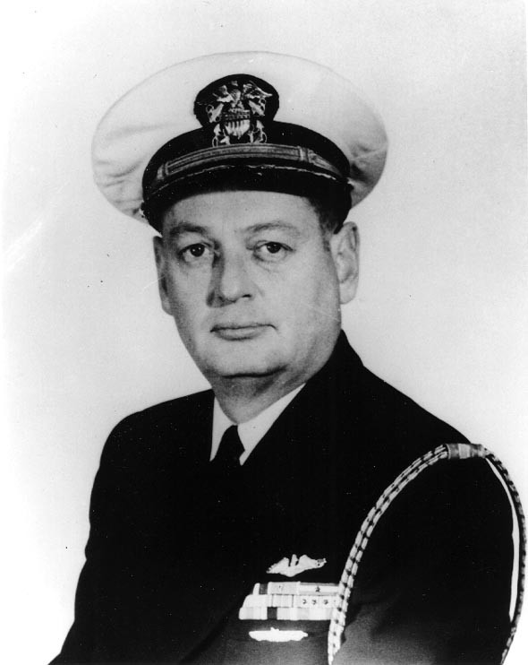 Capt. Joseph F. Enright